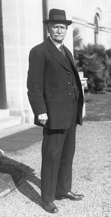 Sir Edward Wittenoom standing outside the old Legislative Council chamber entrance at Parliament House, western façade on Harvest Tce.